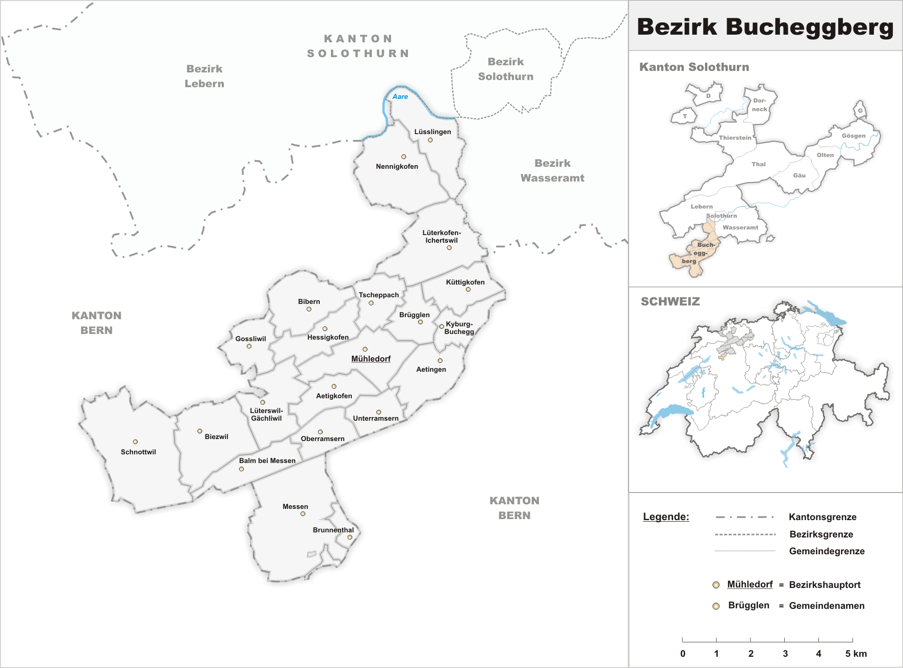 Municipalities in the district of Bucheggberg